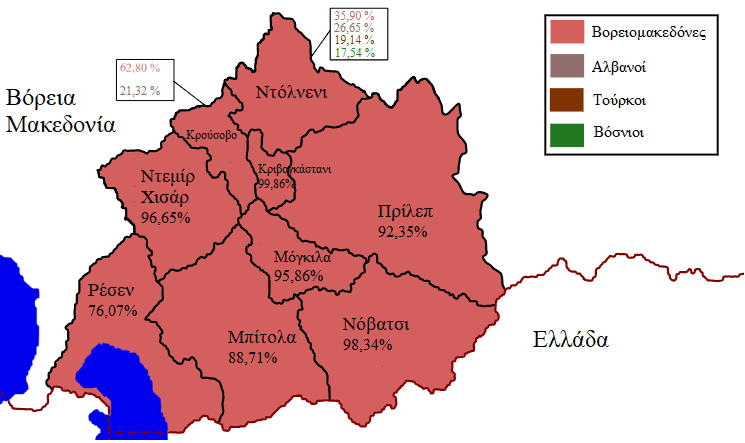 Political map of the majority ethnic groups in the Pelagonia Statistical Region of North Macedonia in Greek language.